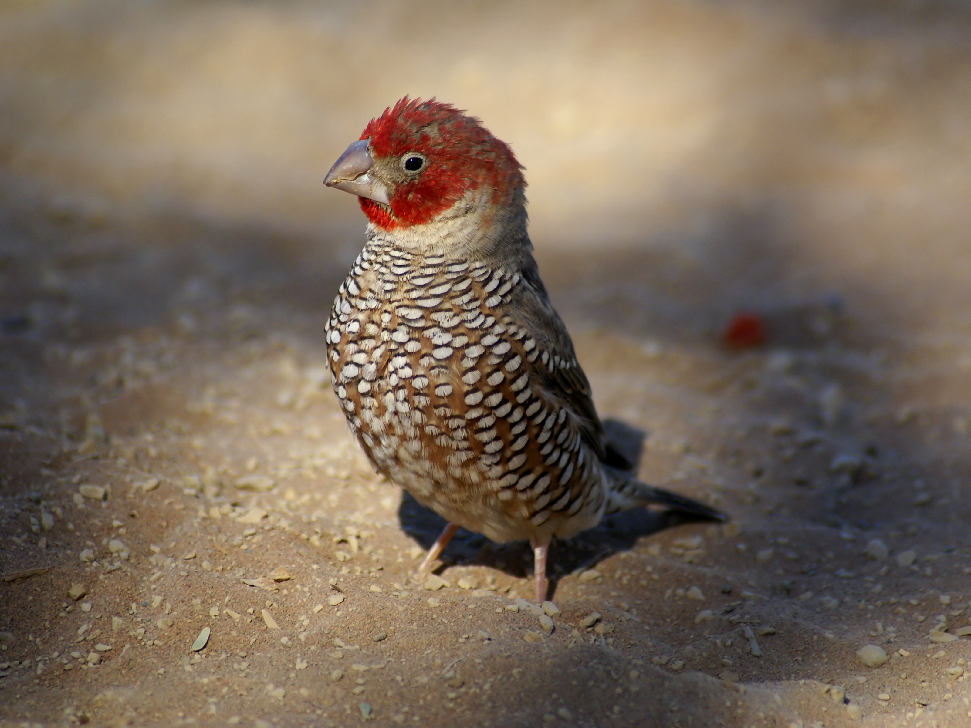 Red Headed Finch ♂, Amadina erythrocephala at Sossusvlei, Namib desert, Namibia.